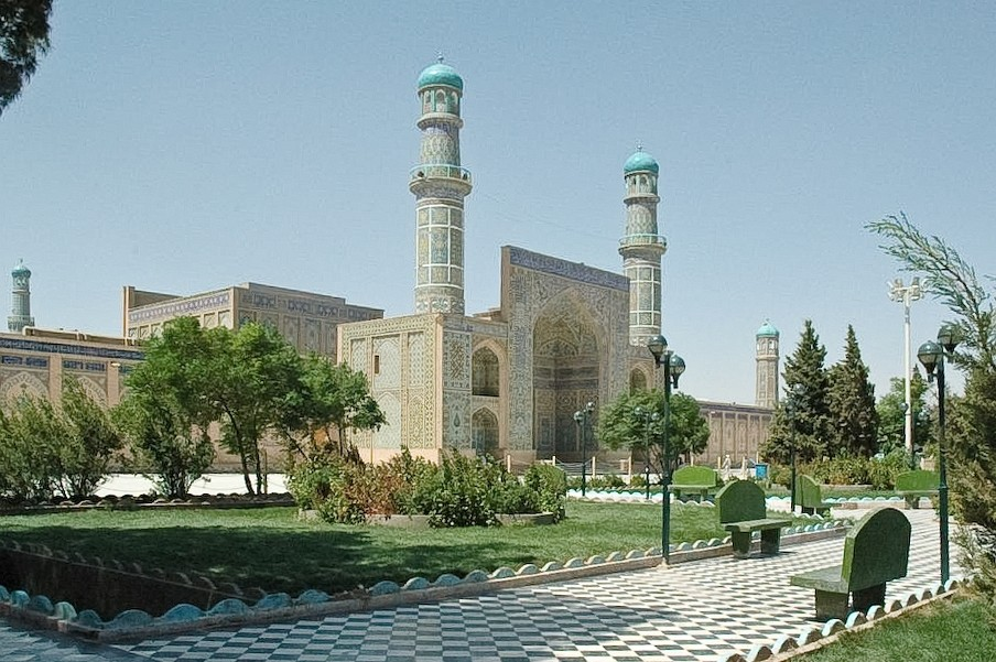 Friday Mosque (Jumah Mosque) in Herat, Afghanistan.